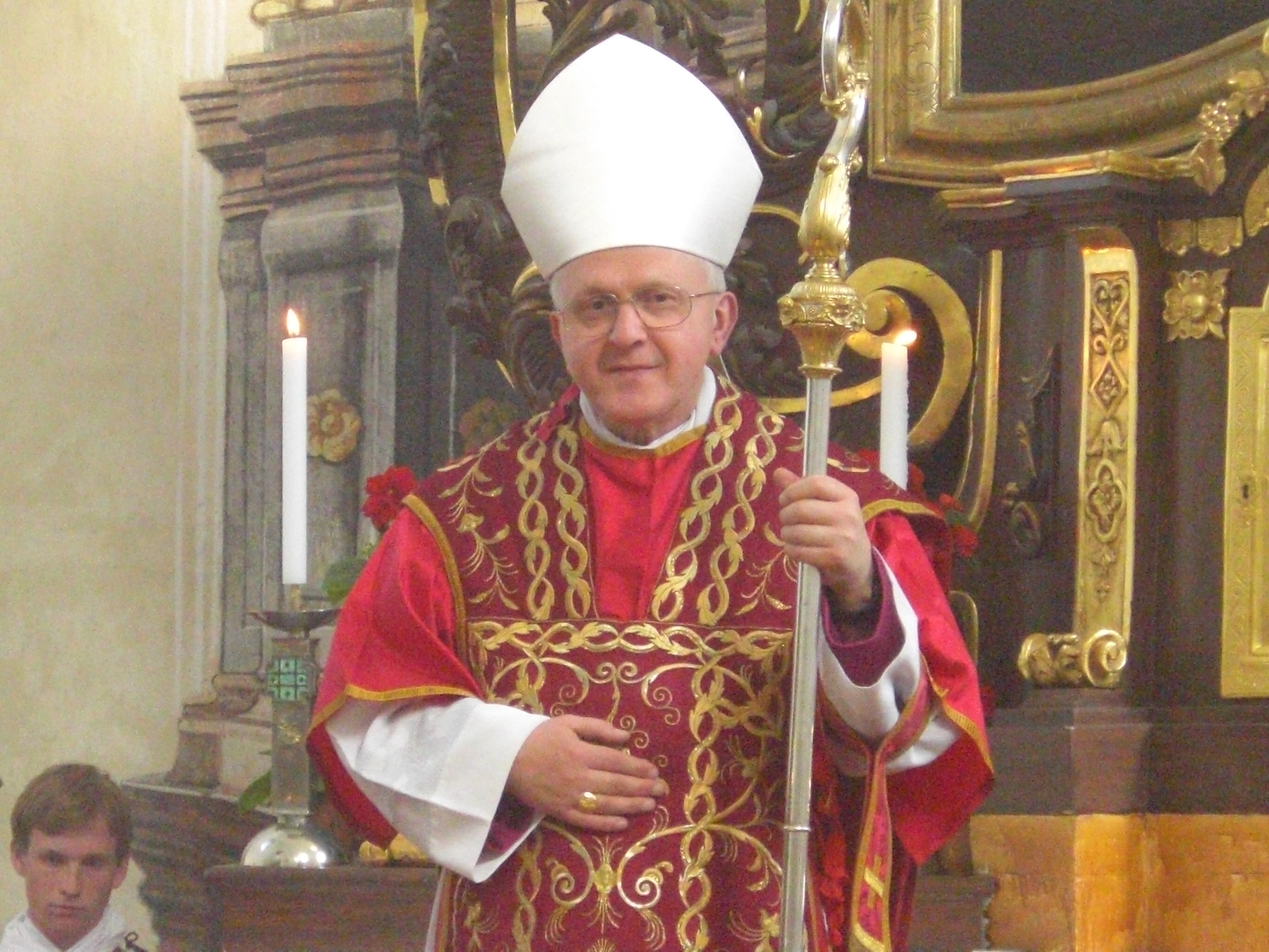 Bishop Jan Baxant in liturgical vestments: Red pontifical dalmatic under the Roman chasuble and a mitre simplex. On the left arm (carrying the crozier) a manipel is attached.